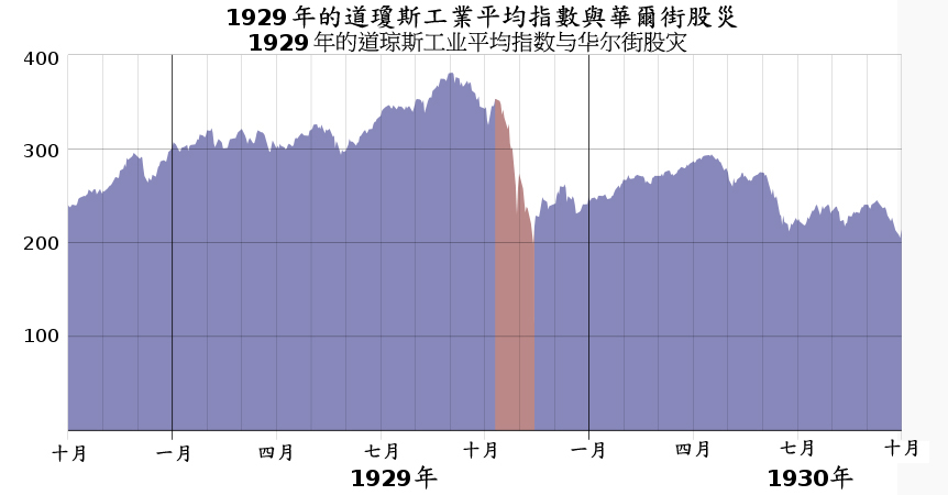 Wall Street Crash and Dow Jones Industrial Average, 1929